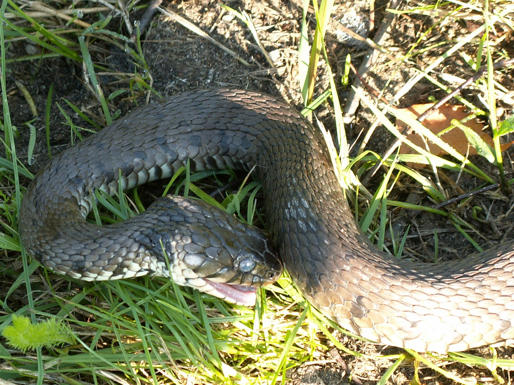 Grass snake playing dead, Renkum, The Netherlands